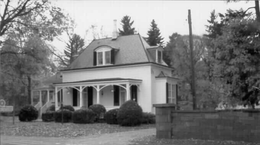 Photo submitted to the National Register of Historic Places. Photo taken in 1991.